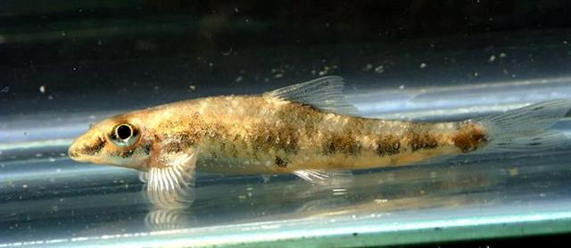 Psilorhynchus balitora photographed in India